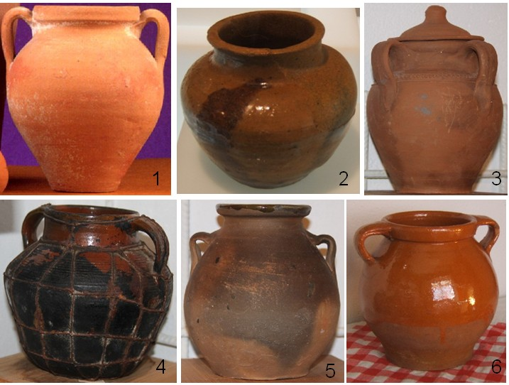 Six types of "earthenware jar" in Spain: 1) Roman jar of the 1st century (Murcia); (2) Arab jar of the 10th century (Medina Azahara, Córdoba); (3) earthenware jar of Peñas de San Pedro (Albacete); (4) earthenware jar of Tamames (Salamanca); (5) Madrid earthenware jar; (and 6) Castilian earthenware jar.